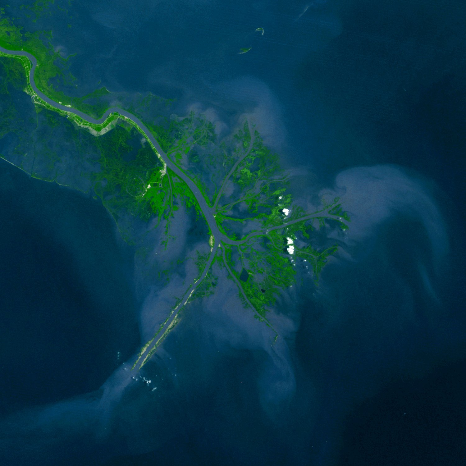 This LANDSAT image of the Mississippi Delta in 1976 shows its characteristic bird's-foot pattern and plumes of sediment entering the ocean from the multiple mouths of the Mississippi River.